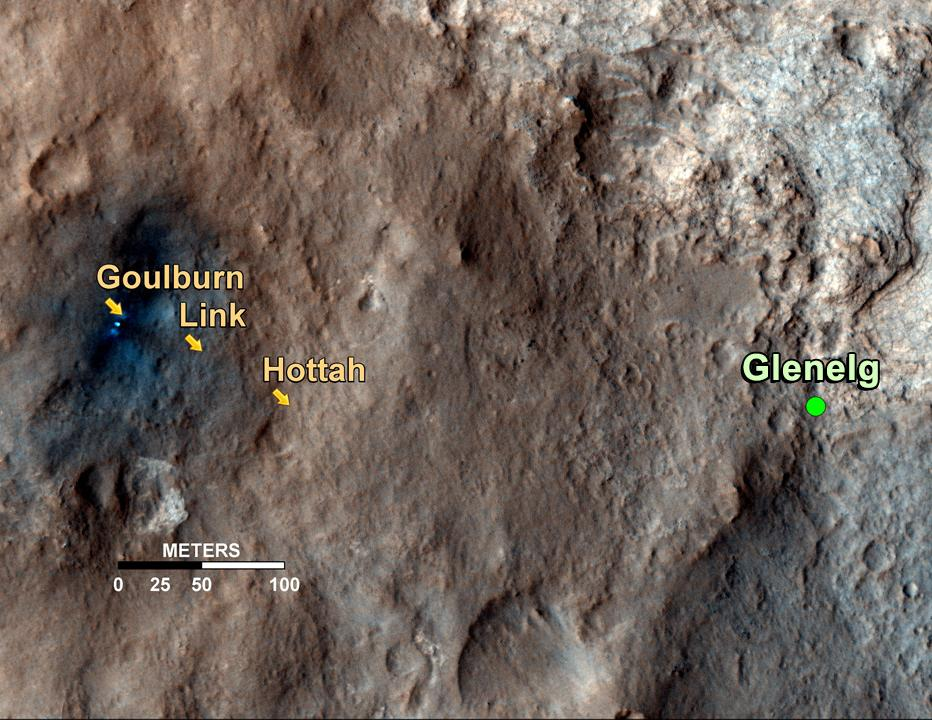 09.27.2012 Curiosity's Roadside Discoveries This map shows the path on Mars of NASA's Curiosity rover toward Glenelg, an area where three terrains of scientific interest converge. Arrows mark geological features encountered so far that led to the discovery of what appears to be an ancient Martian streambed. The first site, dubbed Goulburn, is an area where the thrusters from the rover's descent stage blasted away a layer of loose material, exposing bedrock underneath. Goulburn gave scientists a hint that water might have transported the pebbly sandstone material making up the outcrop. The second feature, a naturally exposed rock outcrop named Link, stood out to the science team for its embedded, rounded gravel pieces. Such rounded shapes are strong evidence of water transport. The final feature, another naturally exposed rock outcrop named Hottah, offered the most compelling evidence yet of an ancient stream, as it contains abundant rounded pebbles. The grain sizes are also an important part of the evidence for water: the rounded pebbles, which are up to 1.6 inches (4 centimeters) in size, are too large to have been transported by wind. The image used for the map is from an observation of the landing site by the High Resolution Imaging Science Experiment (HiRISE) instrument on NASA's Mars Reconnaissance Orbiter.